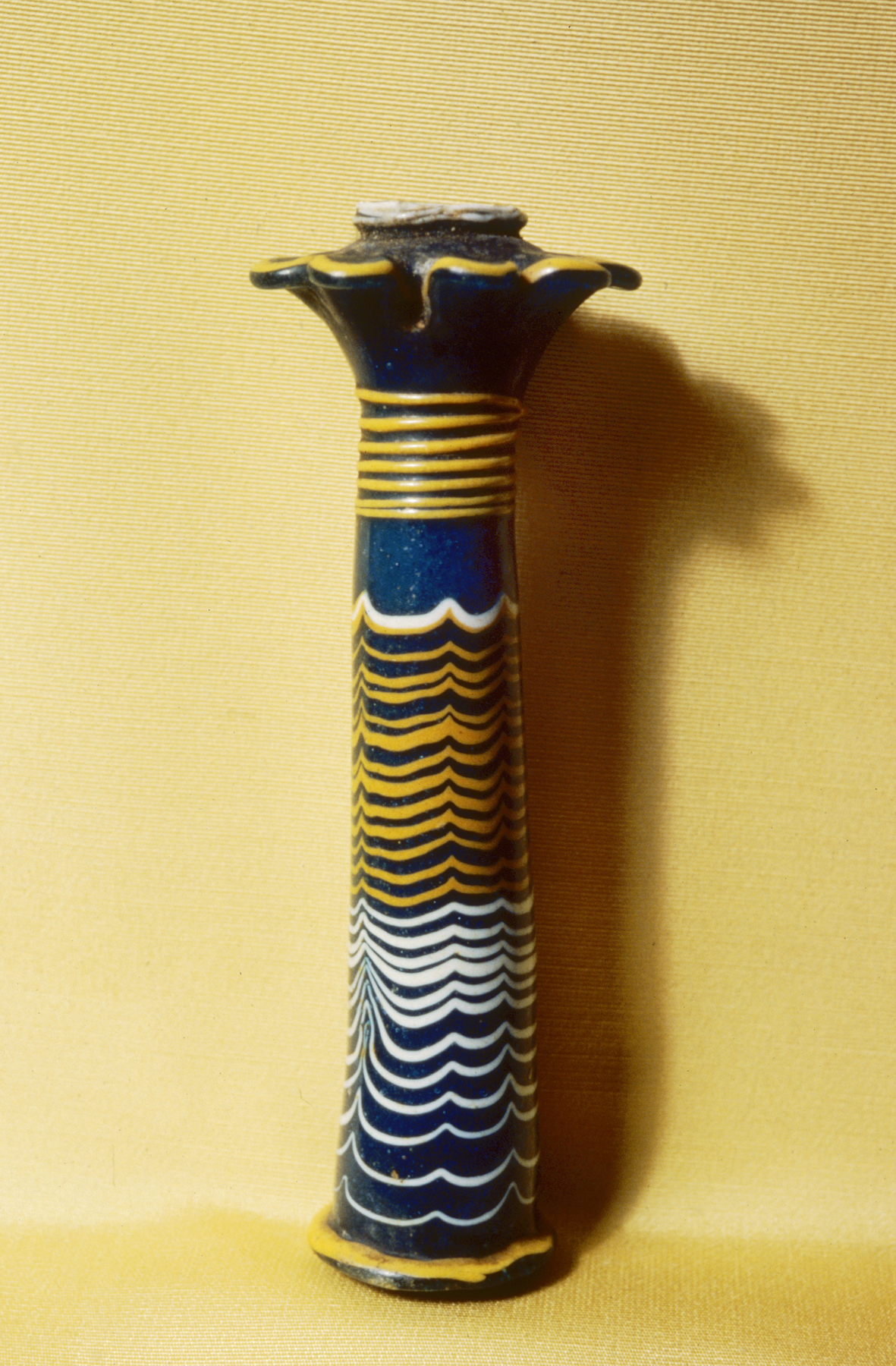 The Egyptian learned from their Near Eastern neighbors how to make glass. At first they imported the raw material and processed it in Egypt, but soon they learned how to produce it by themselves. This core-formed glass kohl tube, is datable to the 18th Dynasty. Originally there would have been a long thin glass applicator for the kohl as well. The palm column shape was quite common for glass kohl tubes. The body of the vessel is composed of translucent bright turquoise colored glass and the surface polish is in excellent condition. The flaring palm top is outlined in dark yellow glass and the opening of the vessel is outlined in opaque white glass. The neck of the tube is decorated with six raised threads of glass. The body is decorated with threads of yellow and white glass which have been dragged to form a festoon pattern. The bottom of the tube is rounded and has a flared ridge around the edge. Some of the core material is still visible inside.